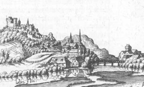 This is a scan of the historical document: Title: Staufenberg - Topographia Hassiae language: german